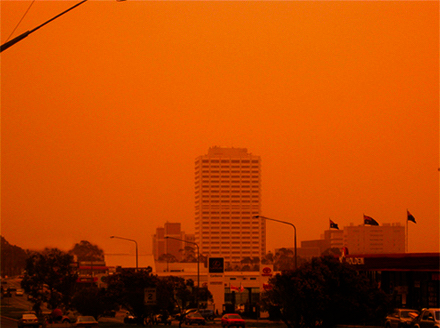 Photo of Woden Town Centre during the height of the 2003 Canberra Firestorm.